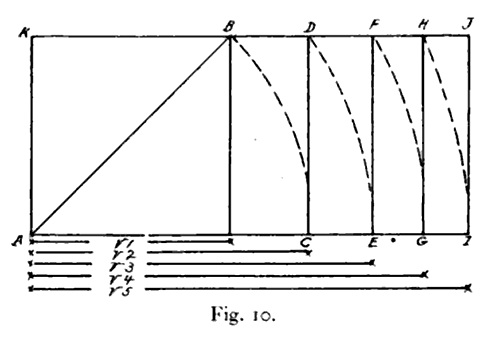 Hambidge Fig. 10 showing construction of "root rectangles"